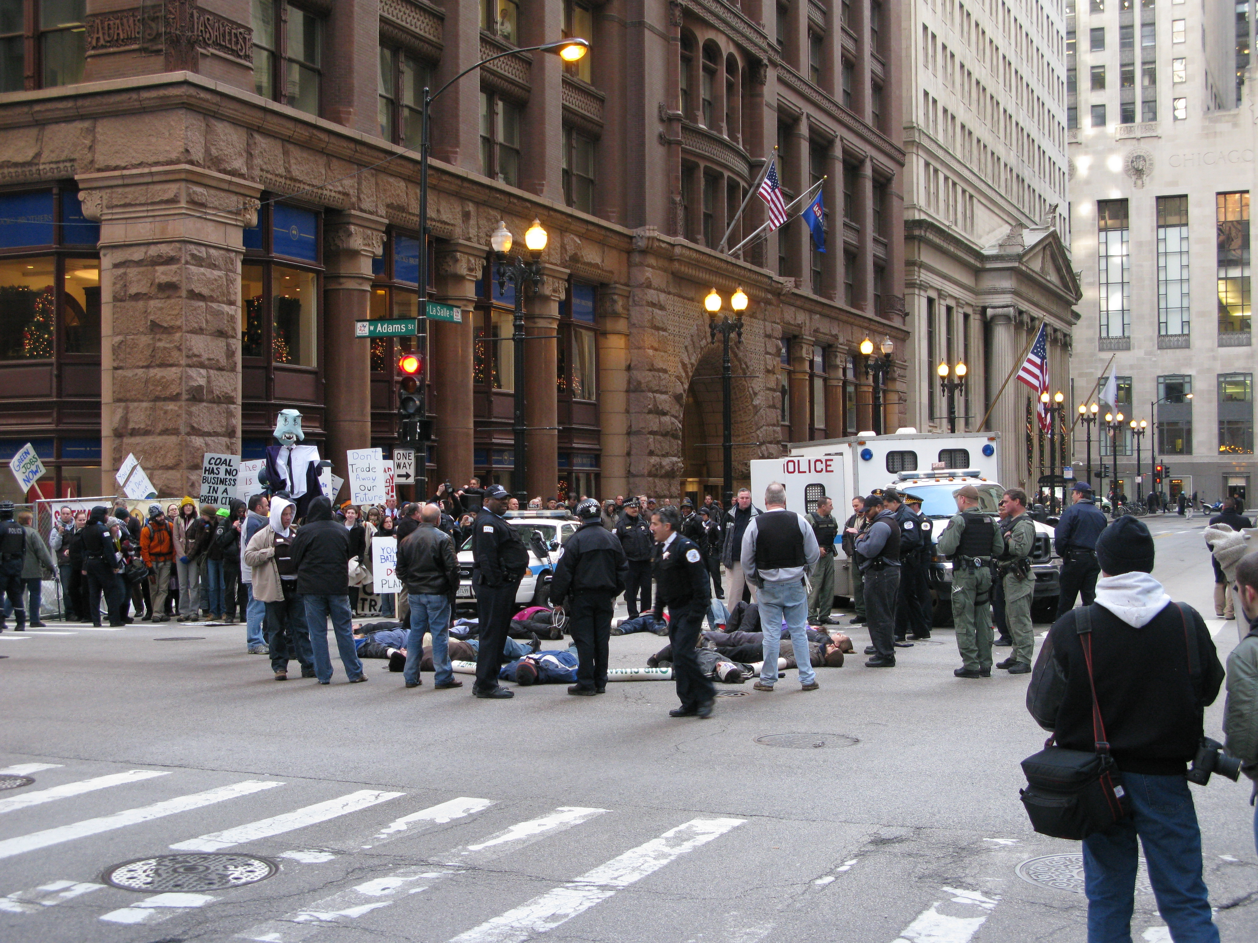 Chicago Climate Justice activists protesting cap and trade legislation at the intersection of LaSalle & Adams in Chicago Loop